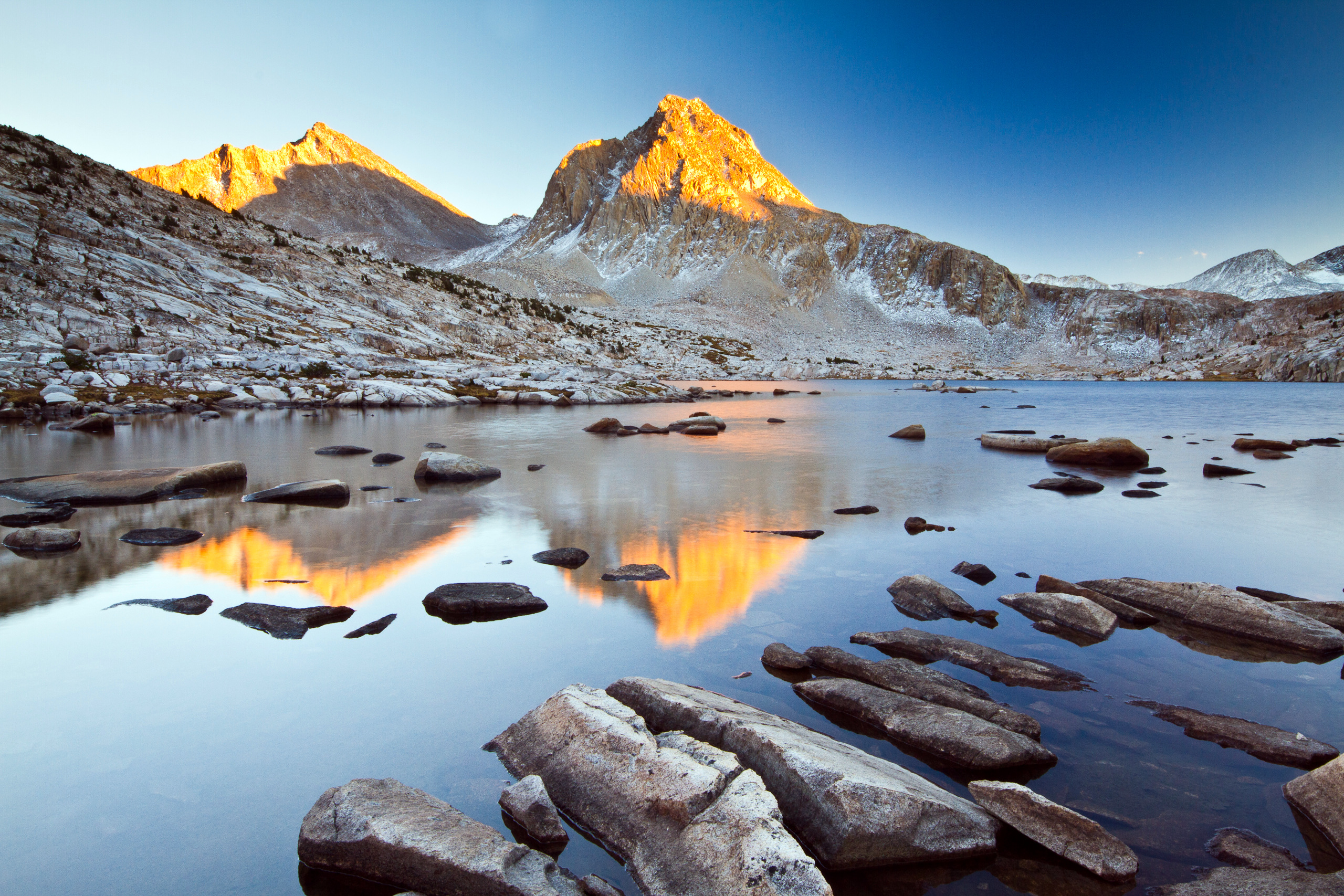 Sunset on Mt. Huxley and Mt. Fisk above Sapphire Lake.